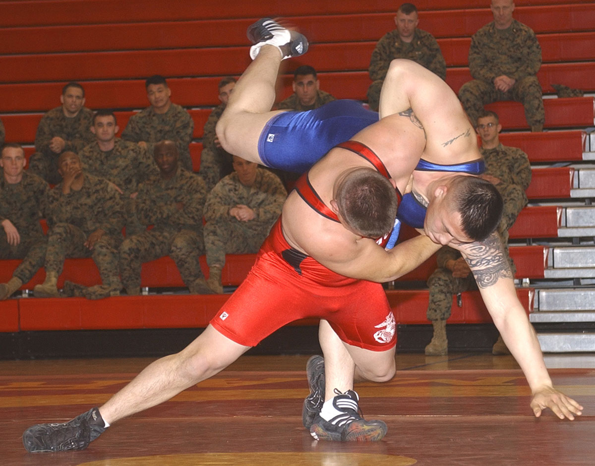 Two U.S. Marines compete in a wrestling match. 03/23/2005 03:33:59 PM;03/23/2005 03:40:18 PM